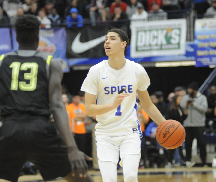 LaMelo Ball with Spire Institute vs. Prolific Prep at the Flyin' to the Hoop Invitational in January 2019